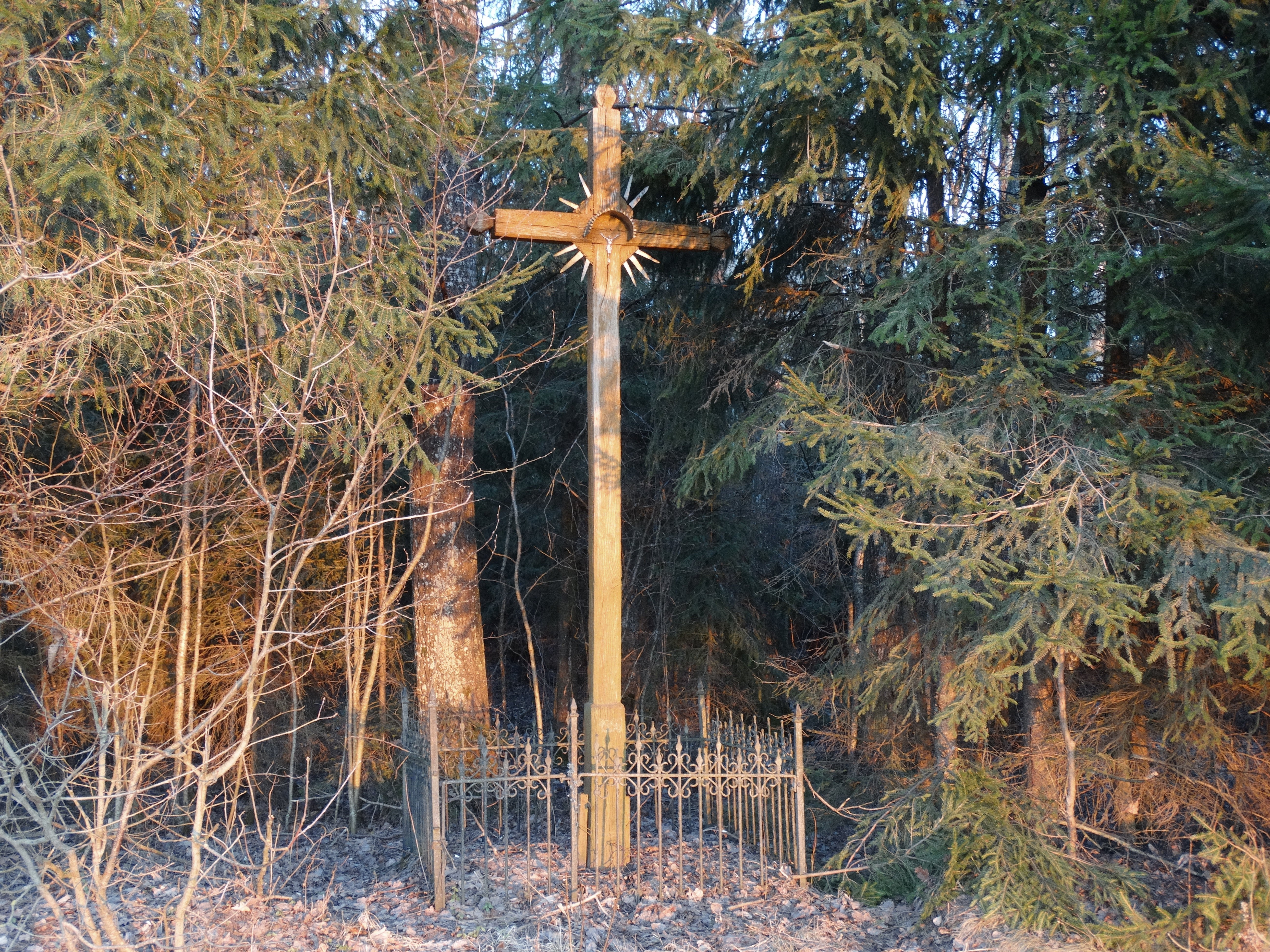 Girininkai I (Alšėnai eldership), Kaunas district, Lithuania